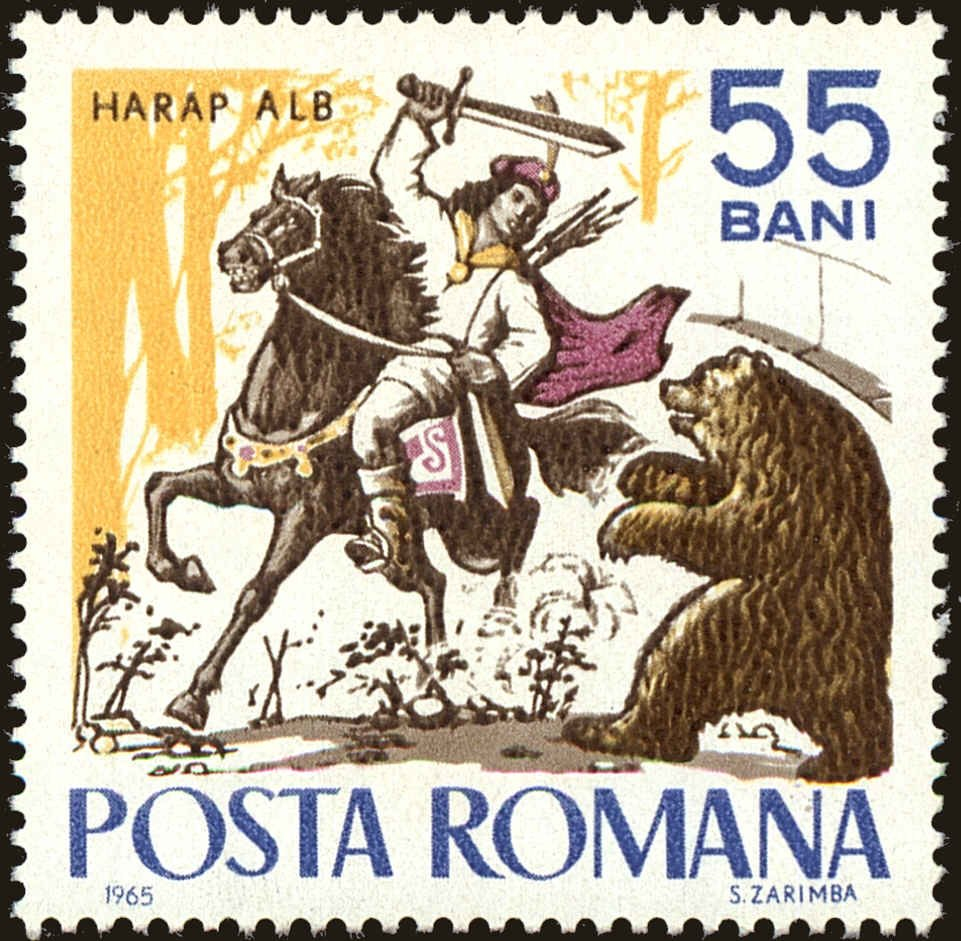 Harap-Alb